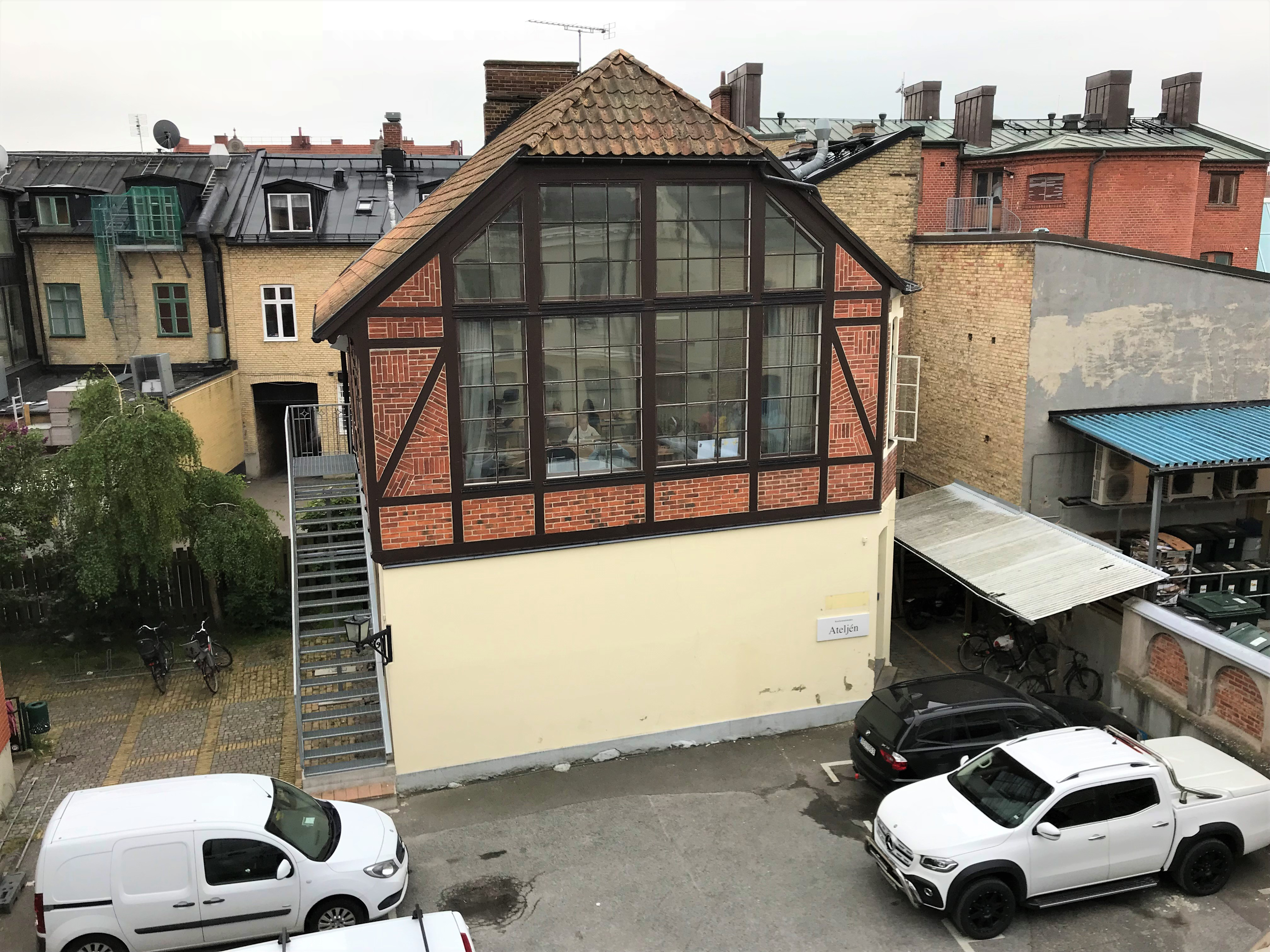 The studio of Sven Walberg in the courtyard of Kiliansgatan 12 in Lund in May 2019, originally built in 1904. Some modifications of the building have taken place in course of the years.